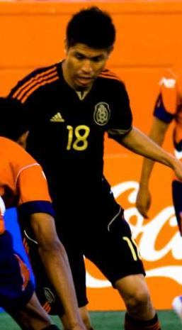 Mexican footballer Oribe Peralta